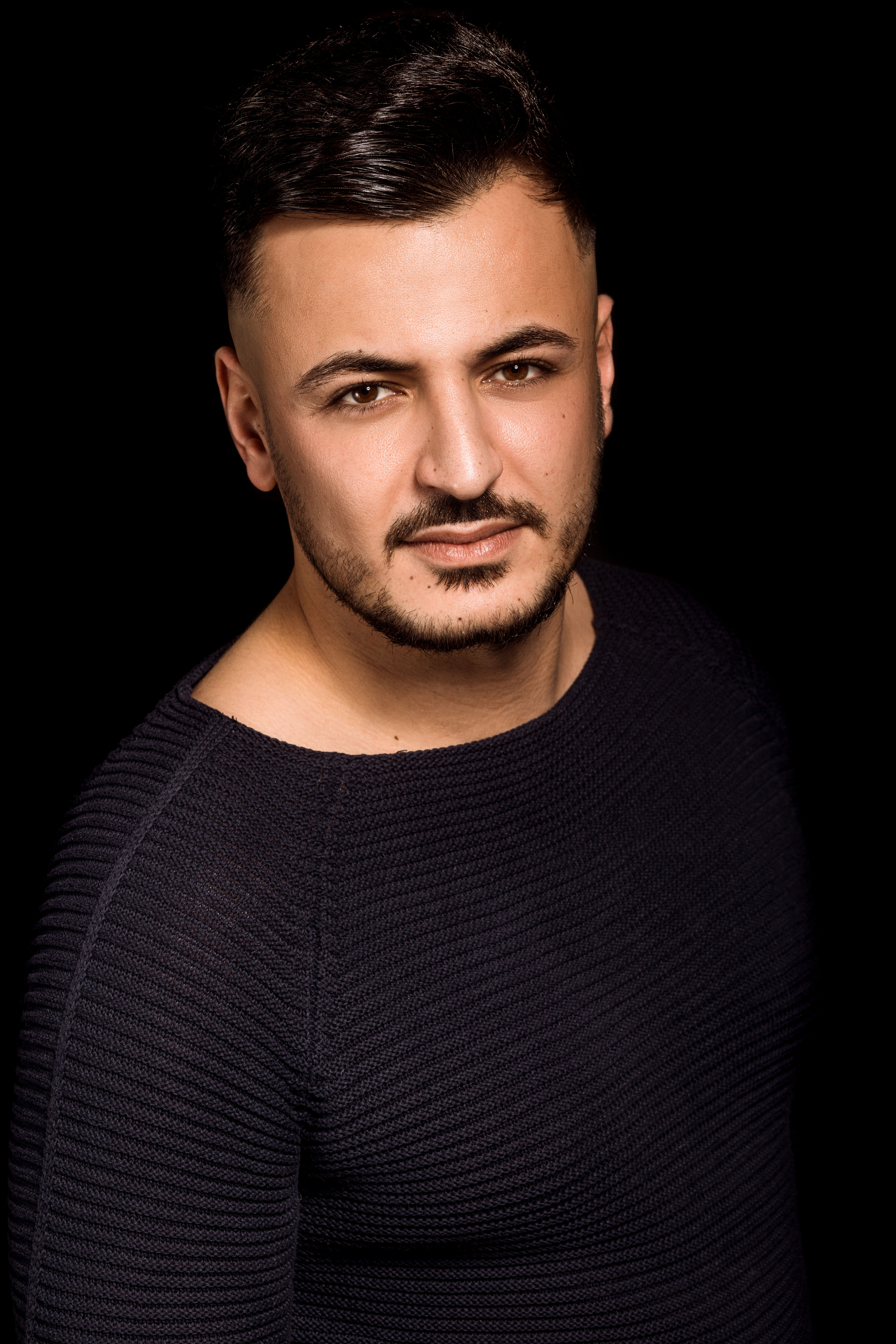 Music producer Onuralp Cikik (DJ Tuneruno)